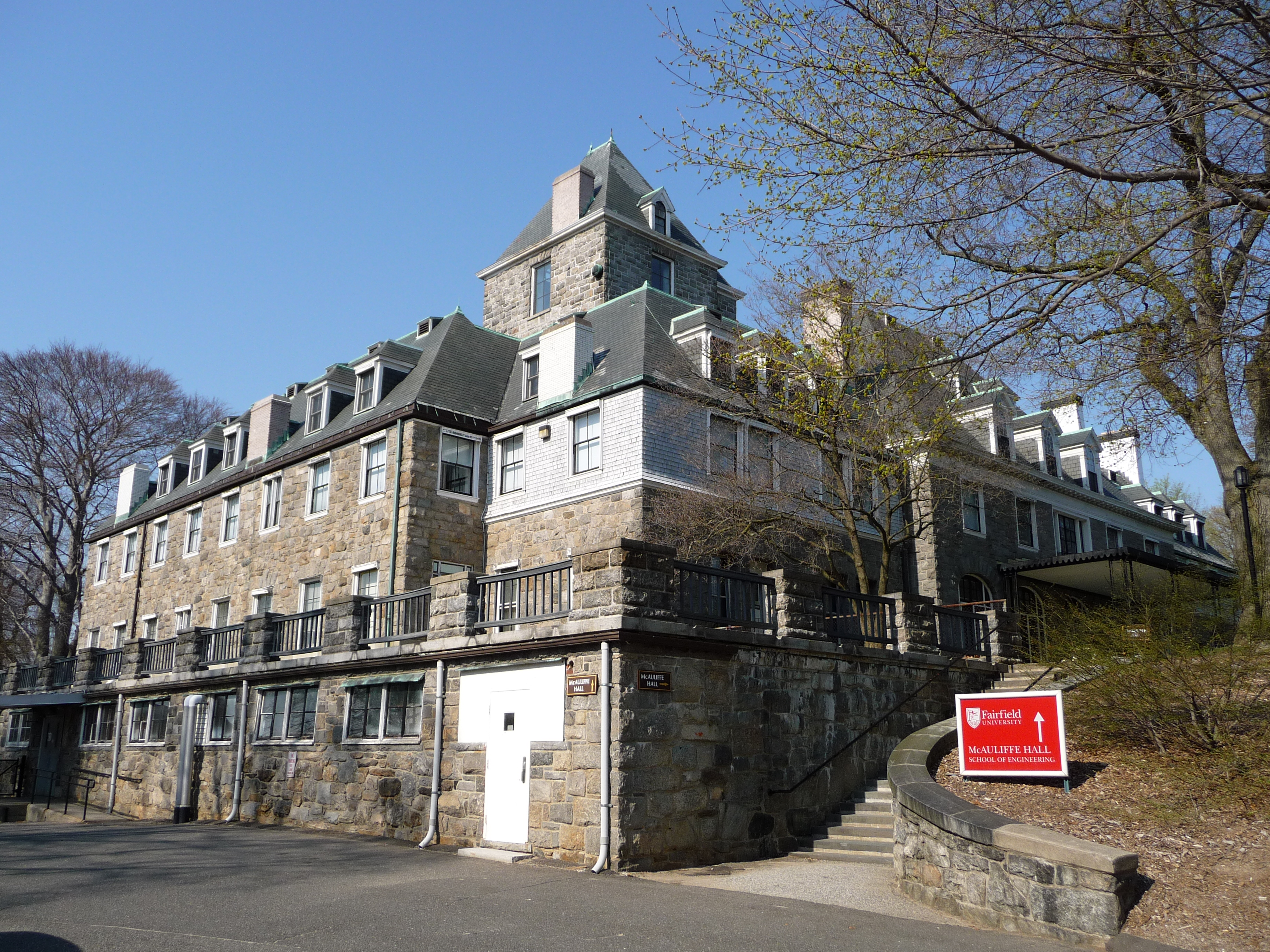 McAuliffe Hall at Fairfield University